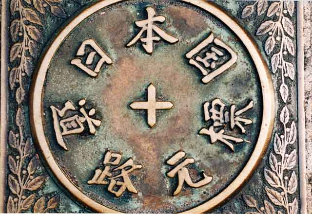 Marker in Nihonbashi from which distances are measured in Japan. Nihombashi, Chuo, Tokyo, Japan.